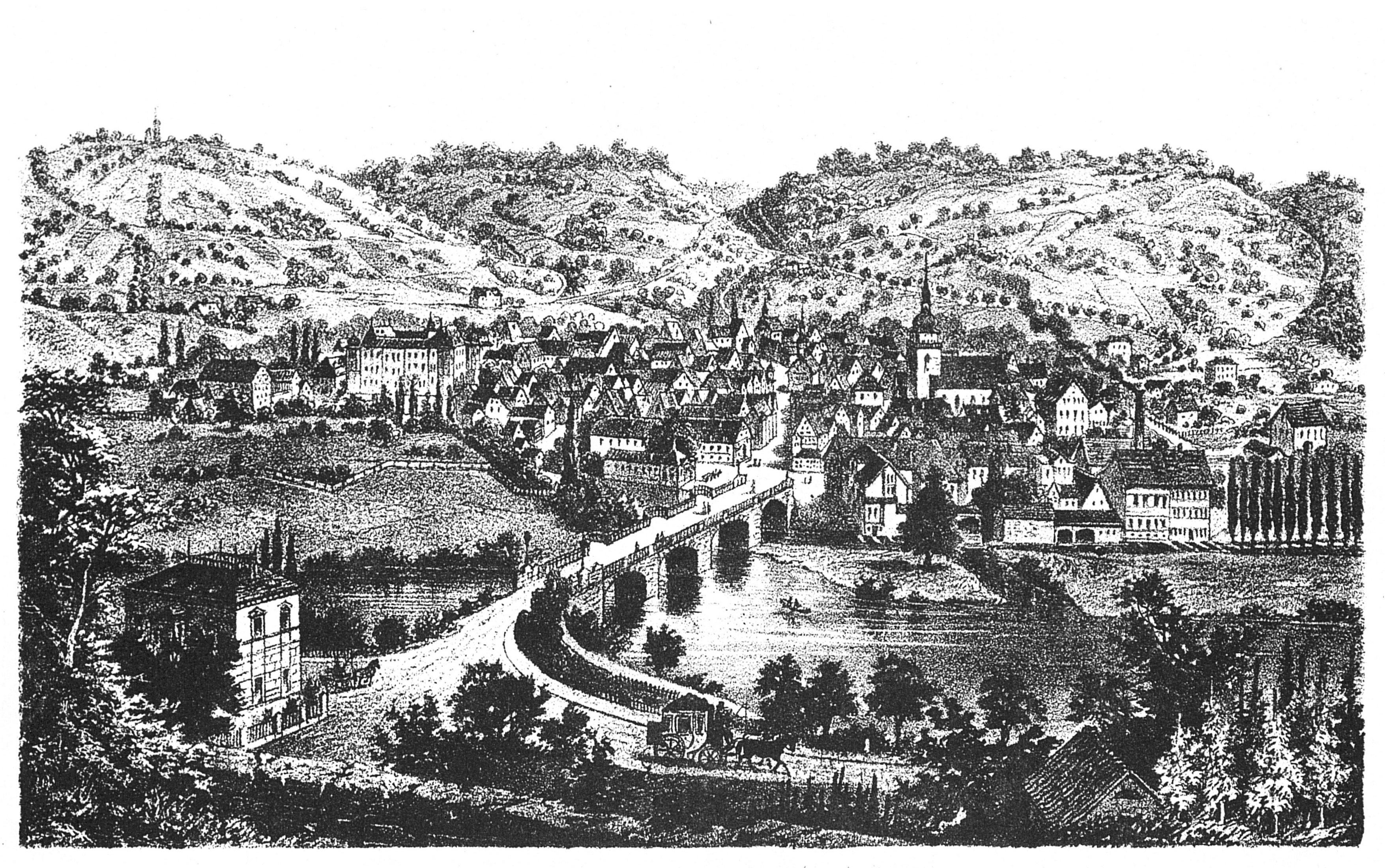 City of Künzelsau around 1880.